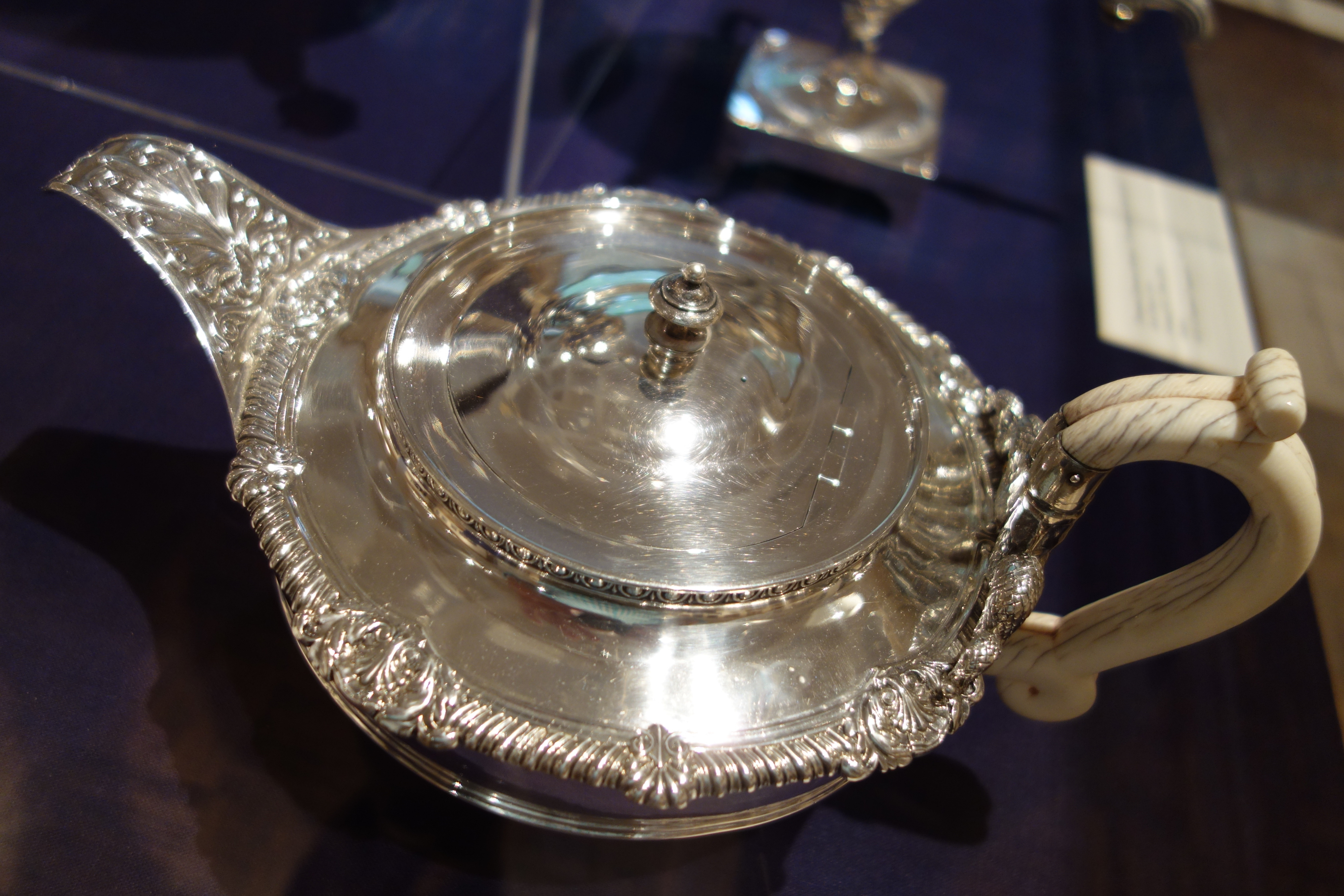 Exhibit in the Huntington Museum of Art, Huntington, West Virginia, USA. This artwork is in the public domain because the artist died more than 70 years ago.